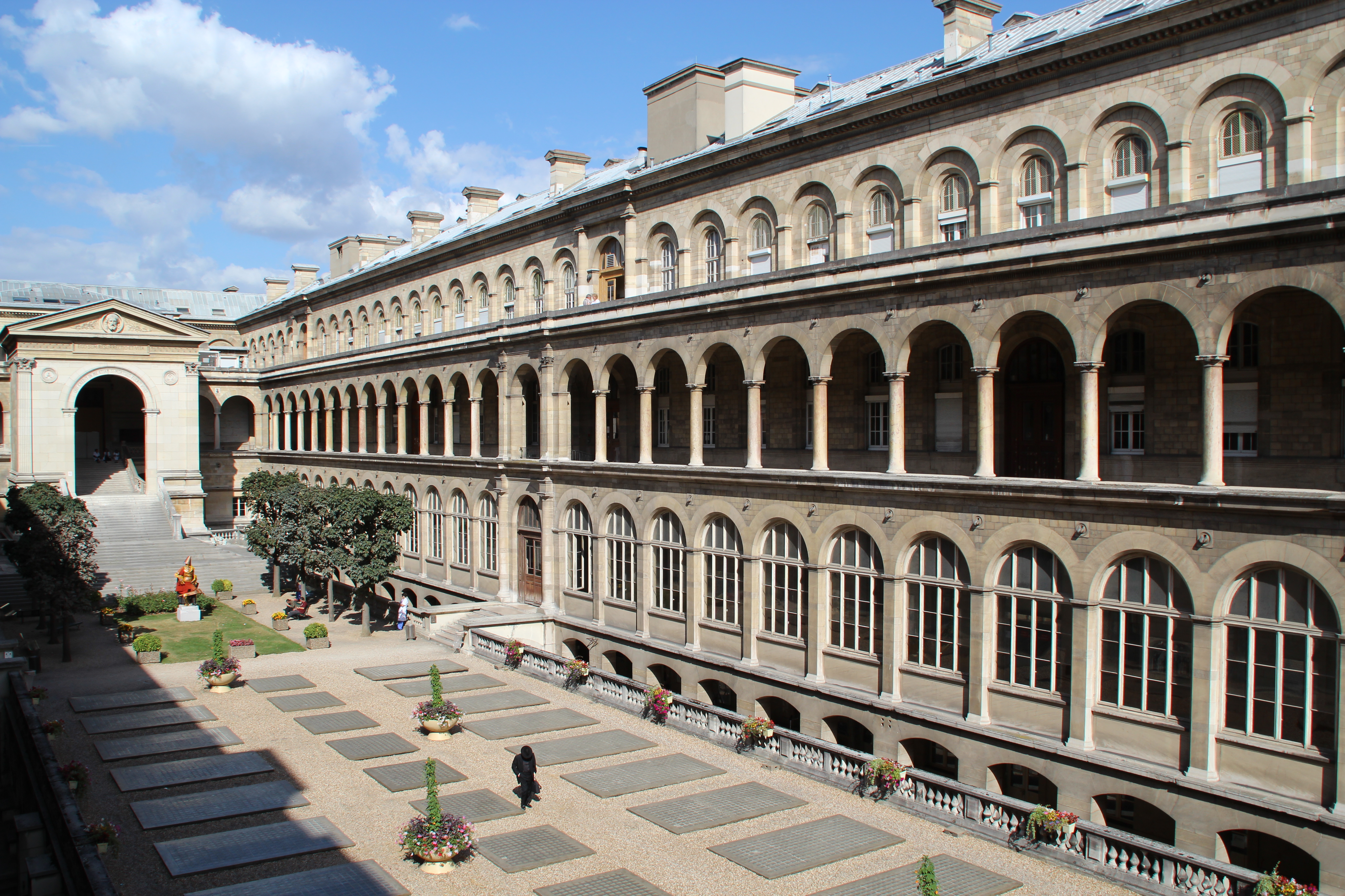 Hôtel-Dieu hospital in Paris, France.